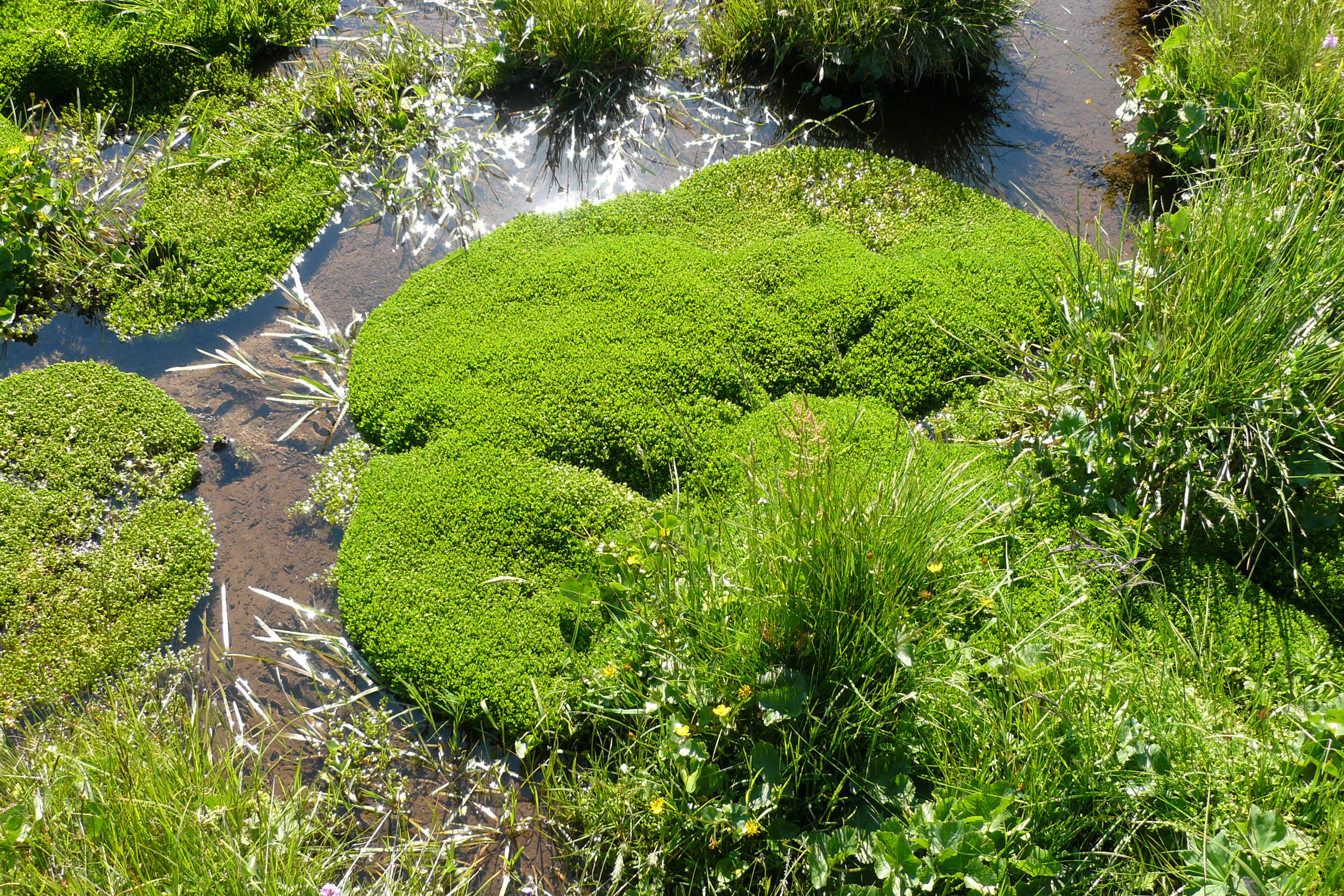 Montia fontana subsp. fontana, Mezenc, 43, France